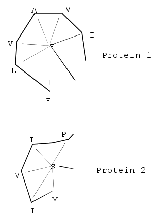 Mockup of atom-to-atom vectors used in SSAP double dynamic programming algorithm